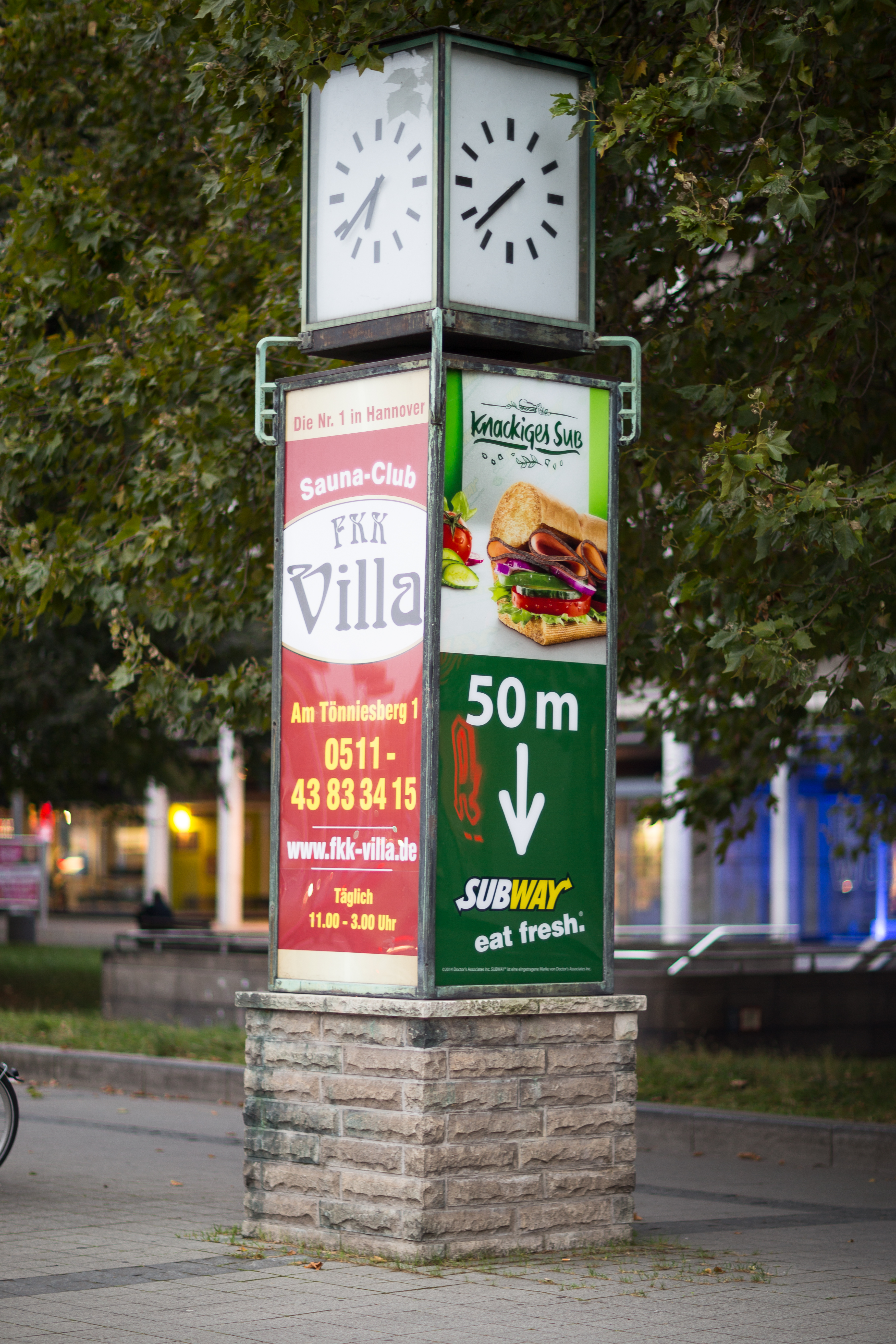 "Falke" clock in the stile of futurism, located at Aegidientorplatz square in Hanover, Germany.